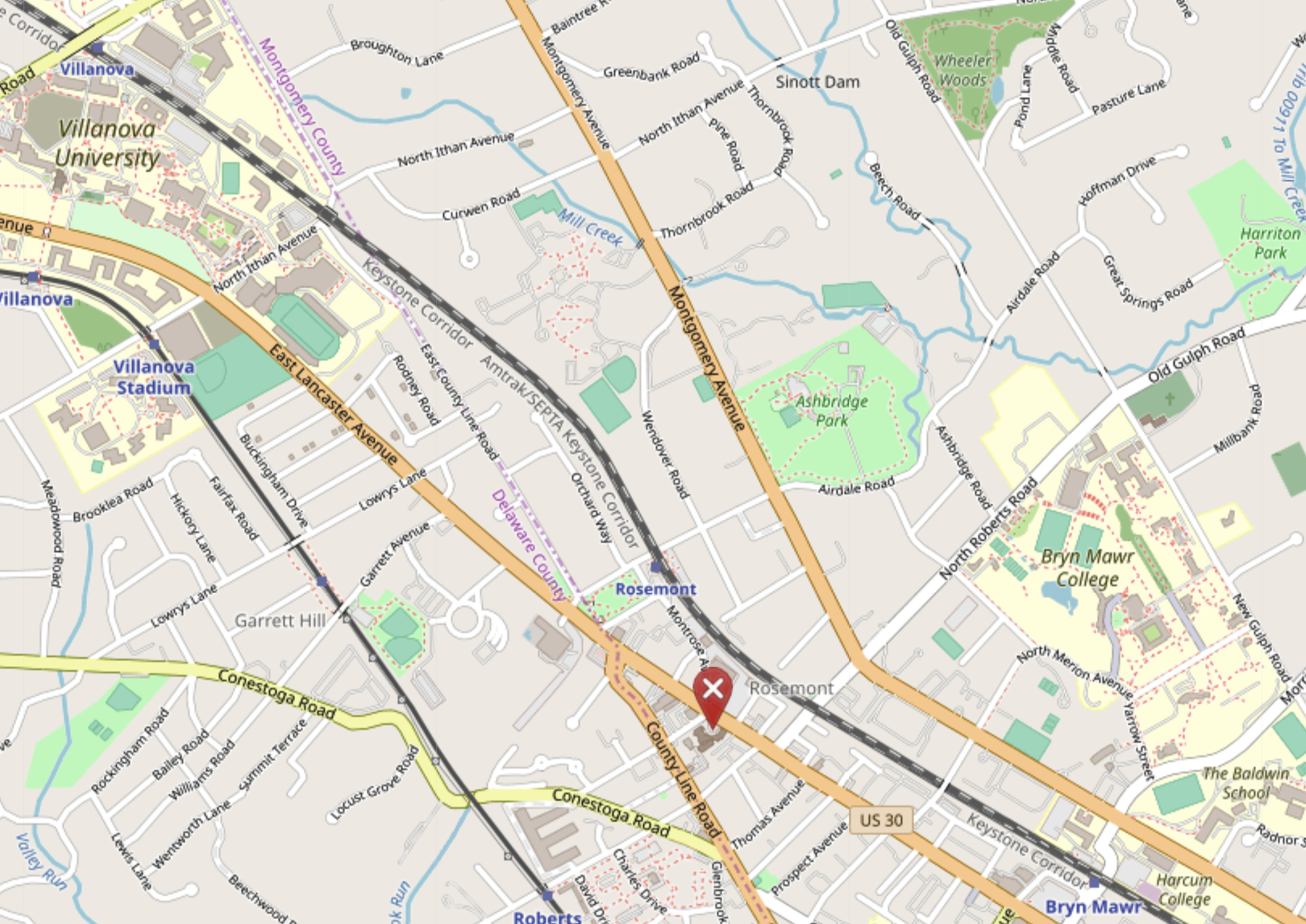 map showing Church of the Good Shepherd (Rosemont, Pennsylvania)